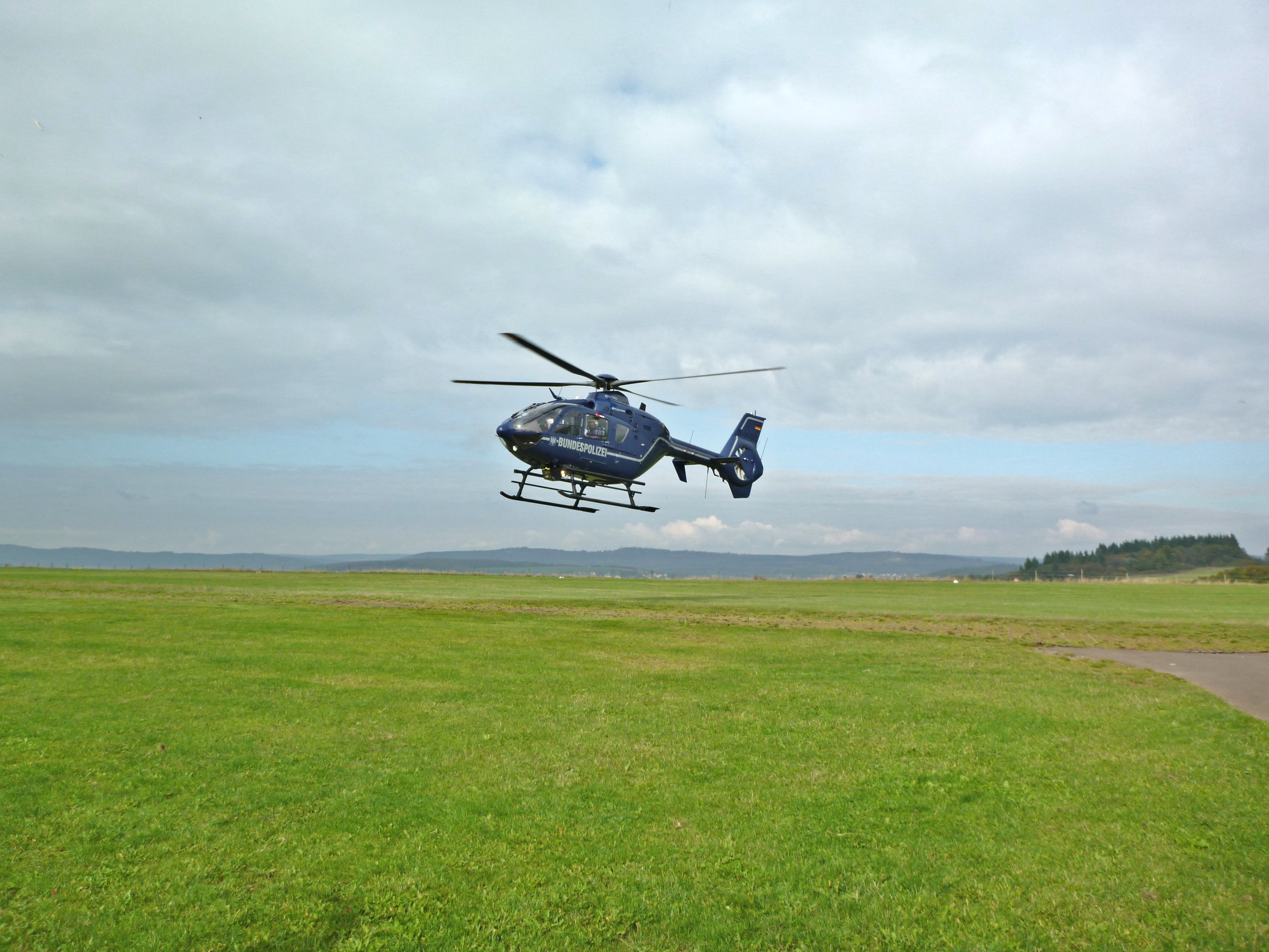 EC135 of the Federal Police (Germany) on the airport Idar-Oberstein/Göttschied